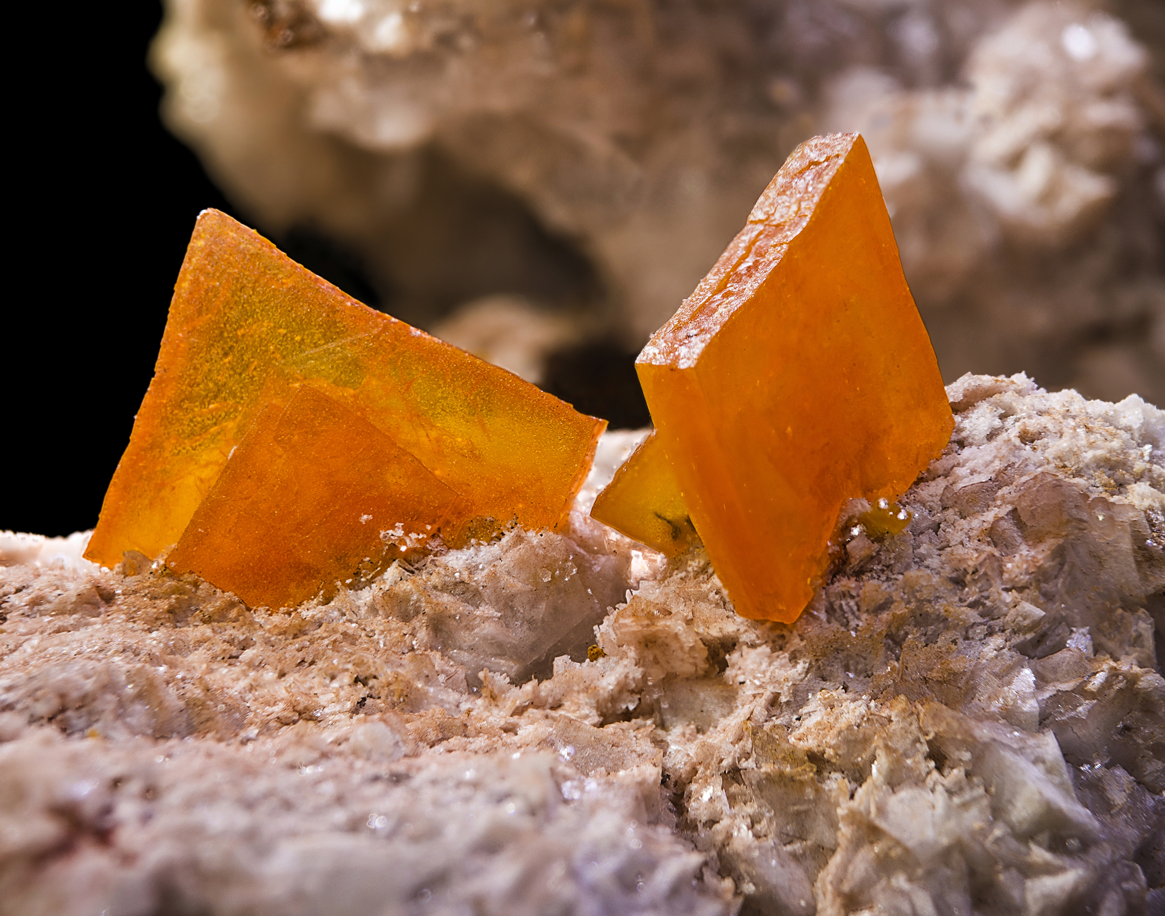 Wulfenite, Calcite Locality: Erupción Mine (Ahumada Mine; Erupción-Ahumada Mine), Los Lamentos Mts (Sierra de Los Lamentos), Municipio de Ahumada, Chihuahua, Mexico Size: specimen 18x10x79cm - crystal 1.6 cm